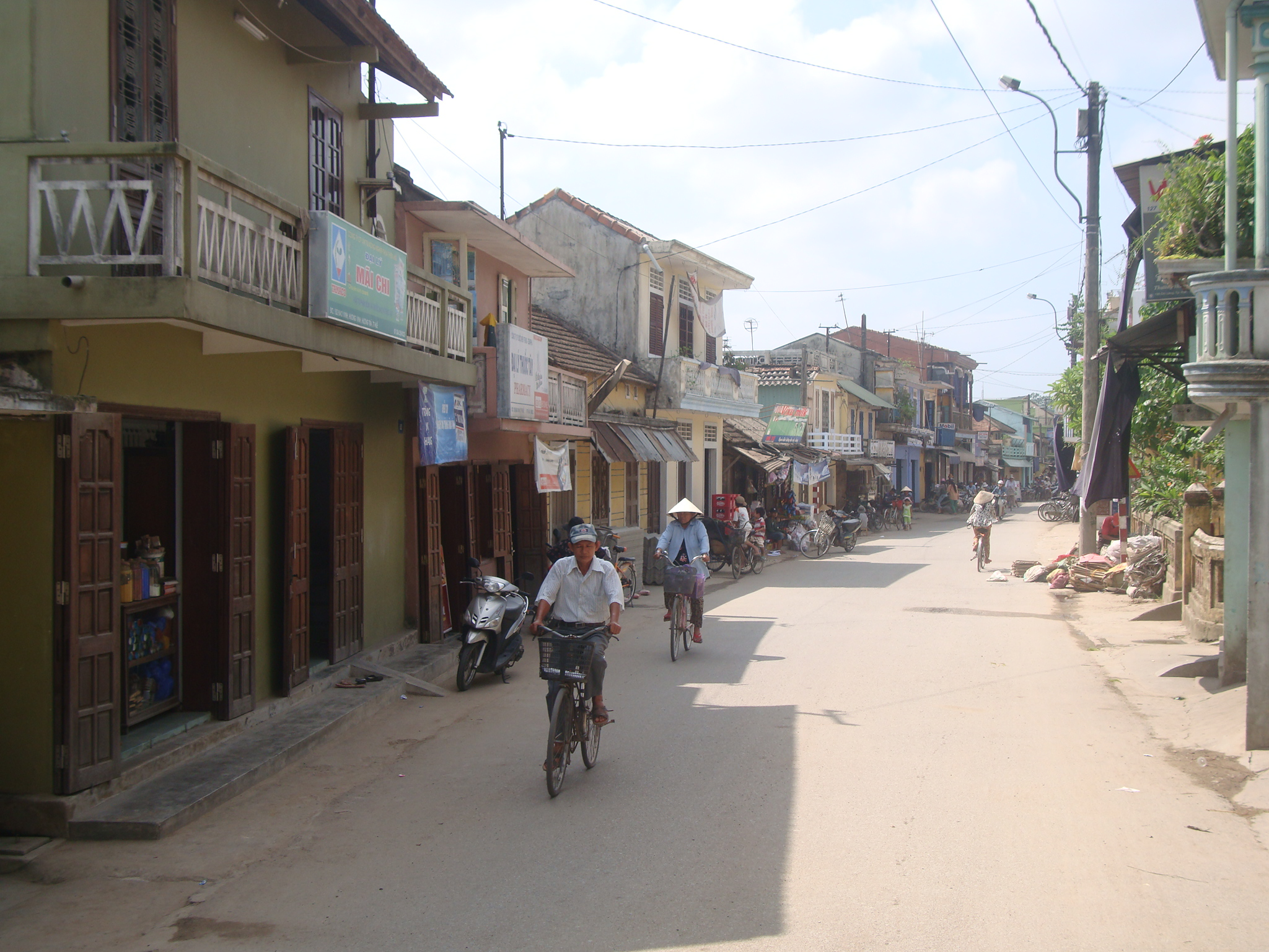 The old street of Bao Vinh in Hue, Vietnam